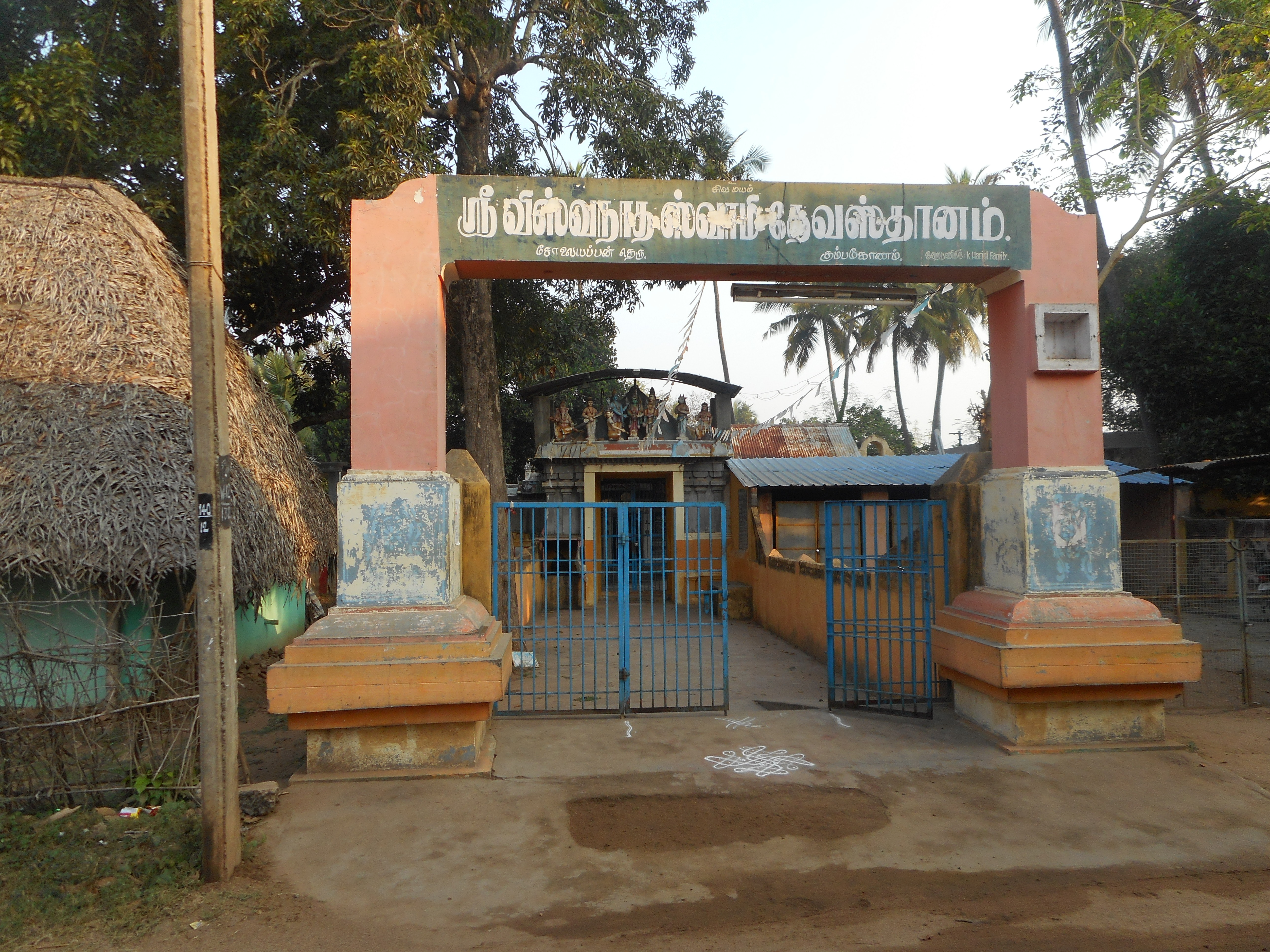 Solaiappan street kasi visvanathar temple சோலையப்பன் தெரு காசி விஸ்வநாதர் கோயில்